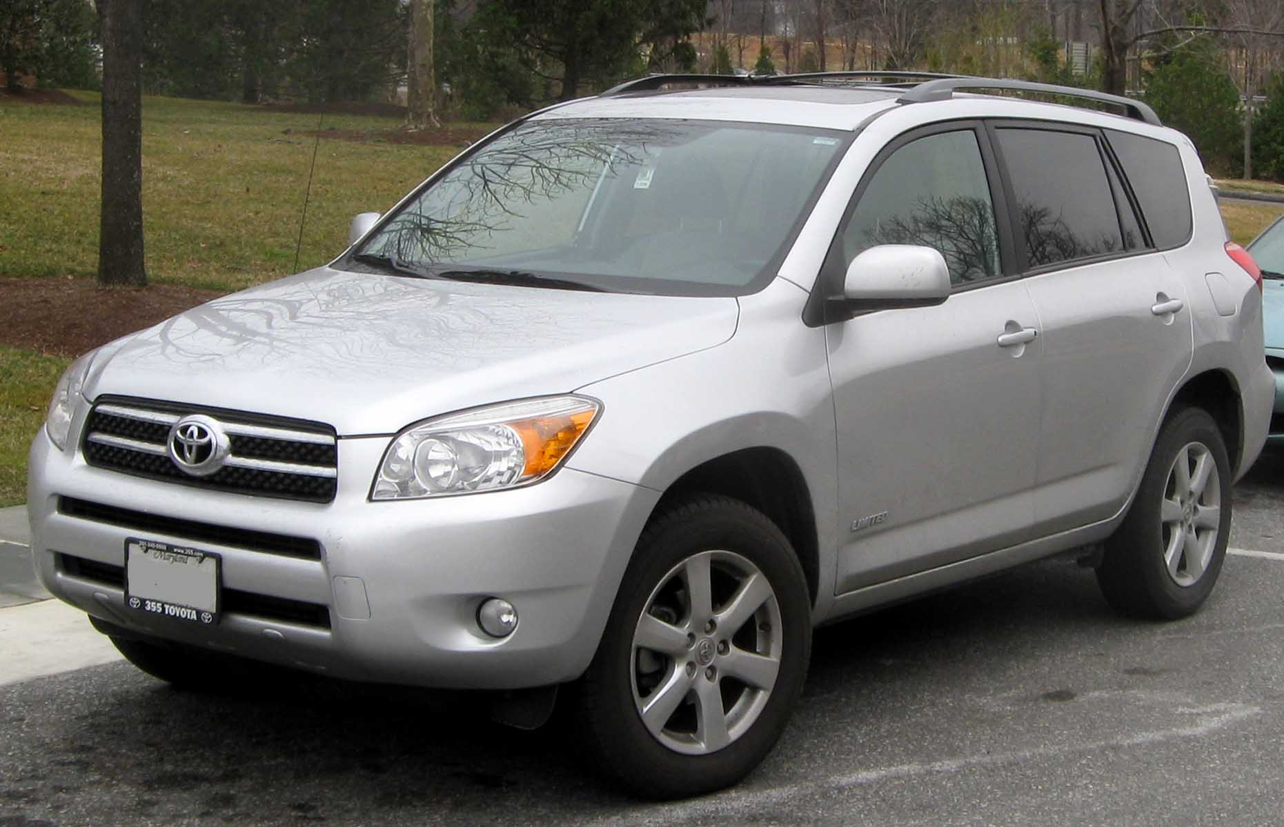 2006-2008 Toyota RAV4 photographed in College Park, Maryland, USA.